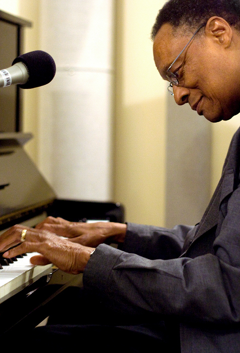 Ramsey Lewis performs live in the KPLU studio on October 16, 2009. Photo by Justin Steyer / KPLU